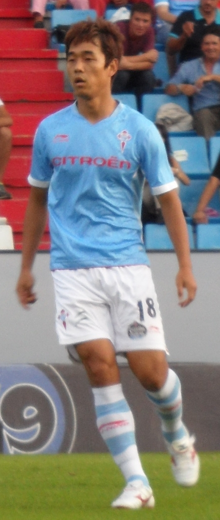 R.C. Celta de Vigo player Park Chu-Young pictured on the match between Celta Vigo and Getafe C.F. at Balaídos Stadium on September 22nd., 2012.